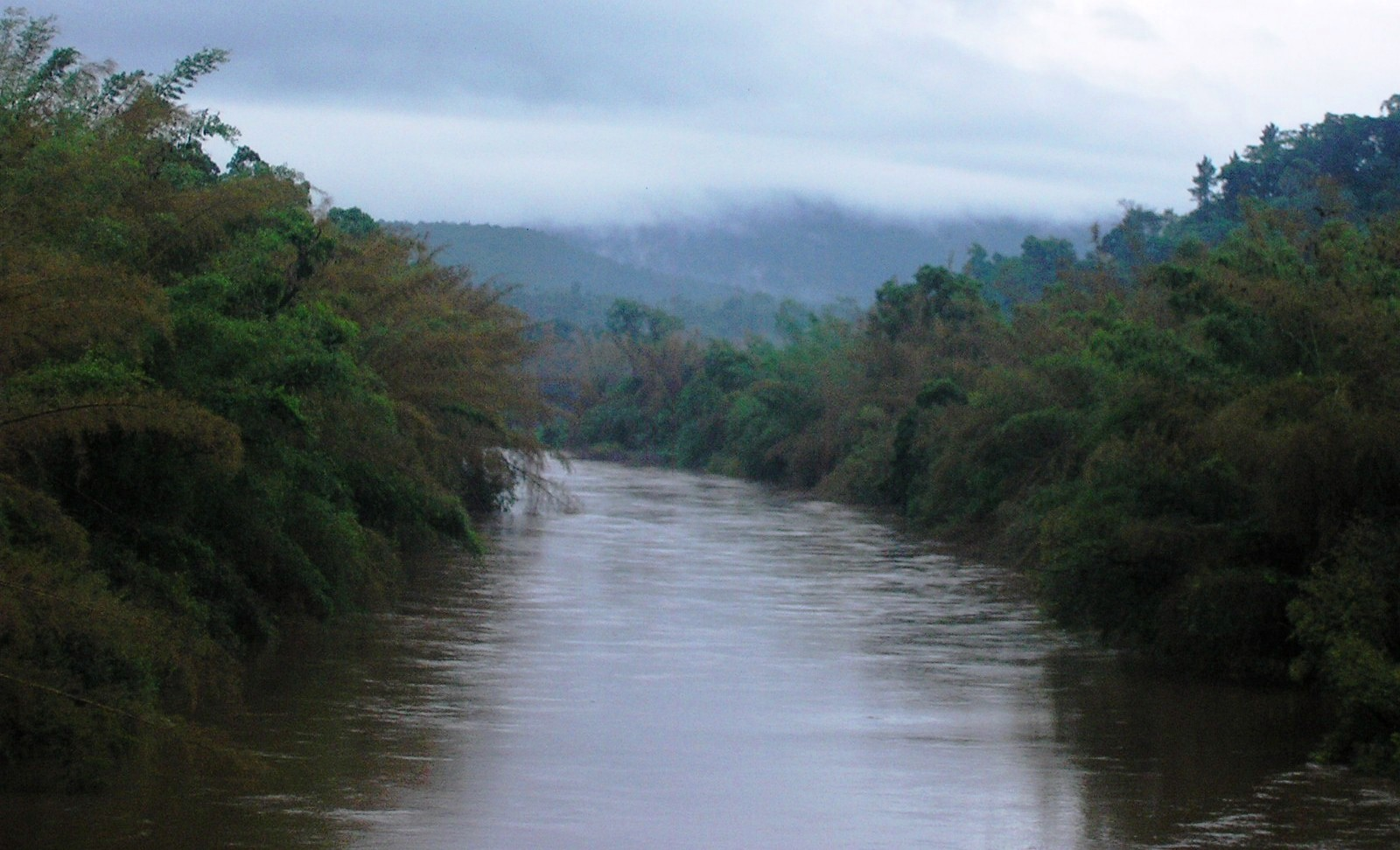 Badra River